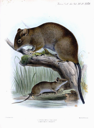 Crunomys fallax (below) and Batomys granti (above)